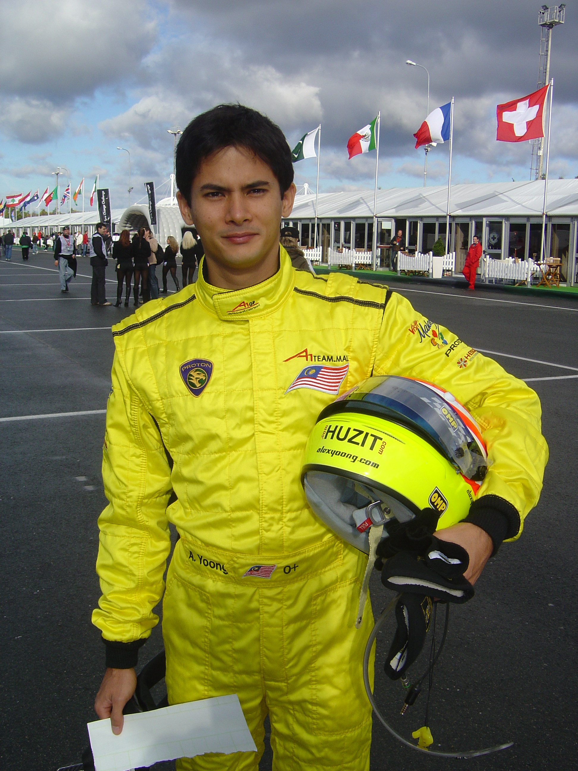 Alex Yoong: the photo was taken during 2007's A1GP race weekend at Brno